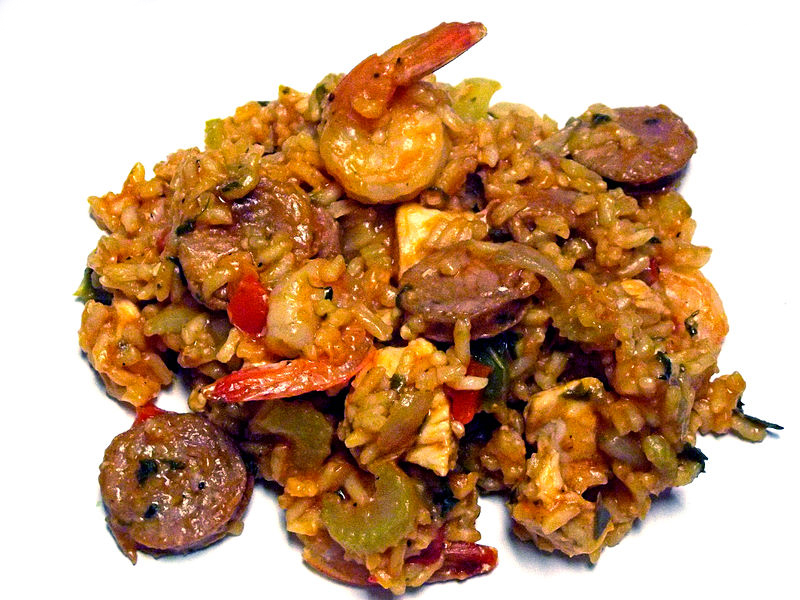 Fresh, homemade Jambalaya